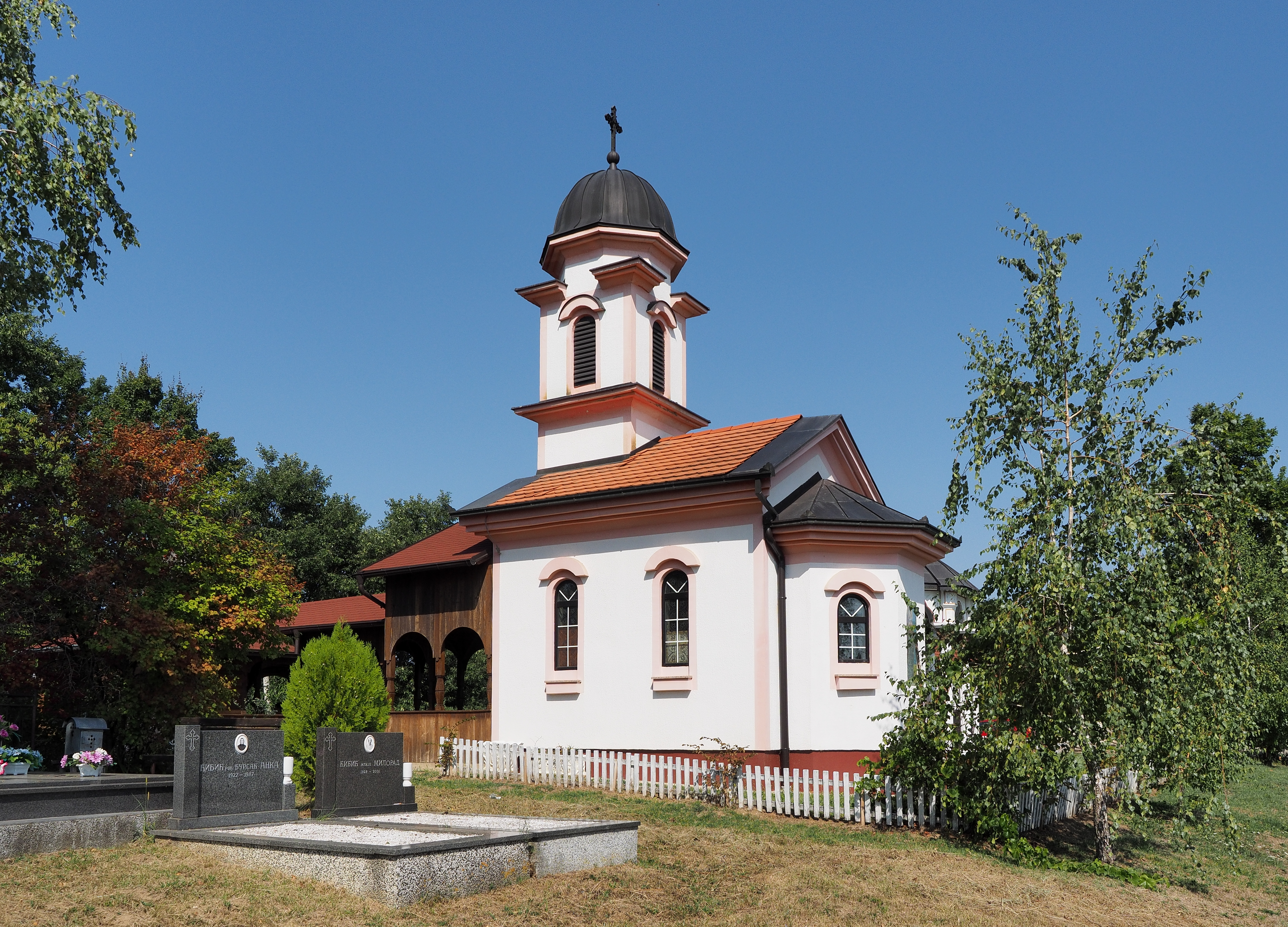 Pobrđani (Kozarska Dubica, Republika Srpska) Српски (ћирилица): Село Побрђани, општина Козарска Дубица. Манастир Василија Острошког и сеоско гробље поред. This photograph was taken with an Olympus E-M1